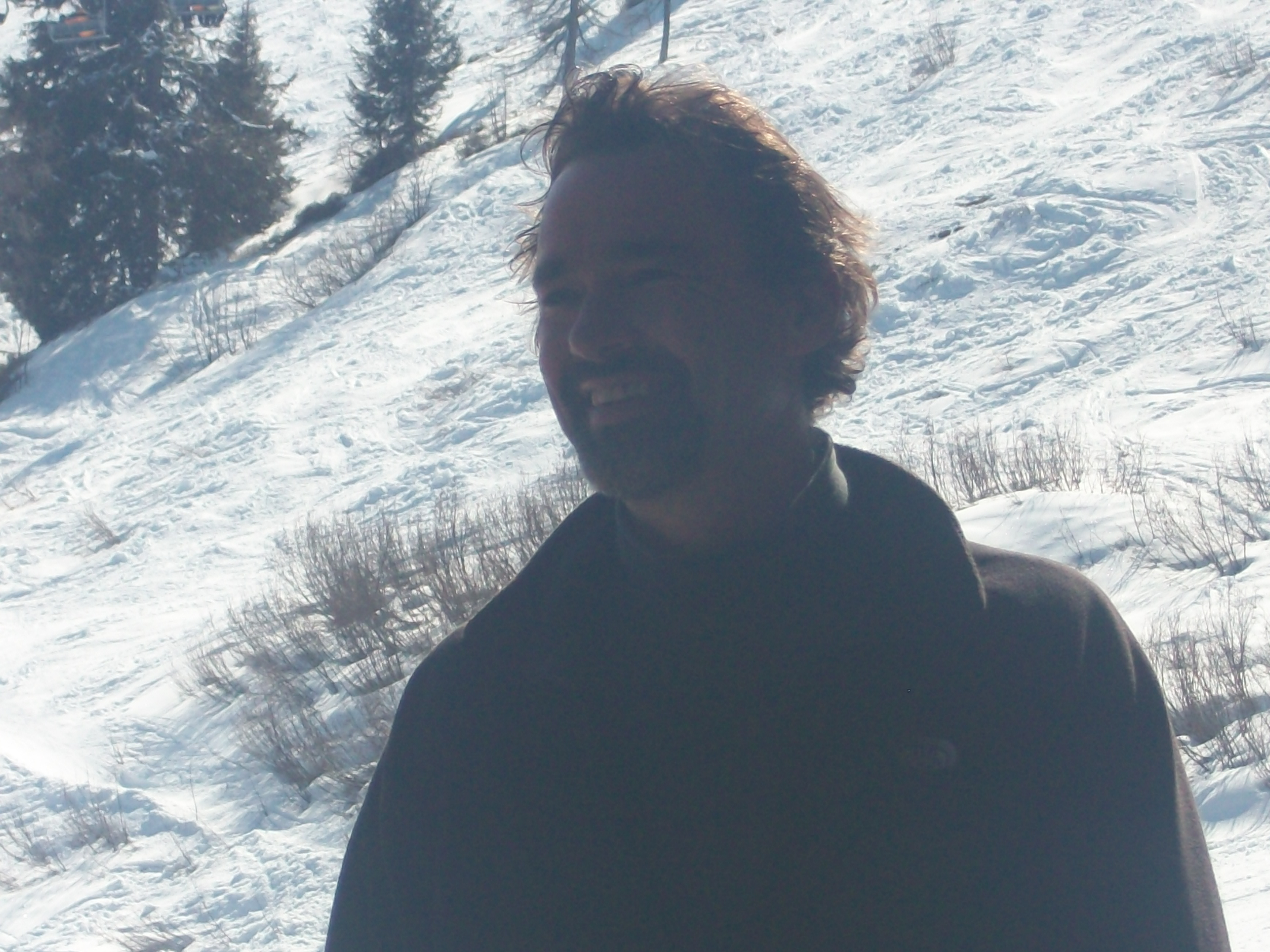 Richard in Alpbach, Austria